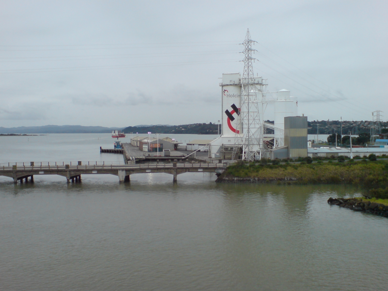 Silos and other buildings of the Port of Onehunga in Auckland City, New Zealand. Looking west from the walk/cycleway under Mangere Bridge.